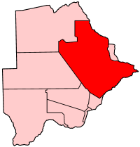 Map of Botswana showing Central district.